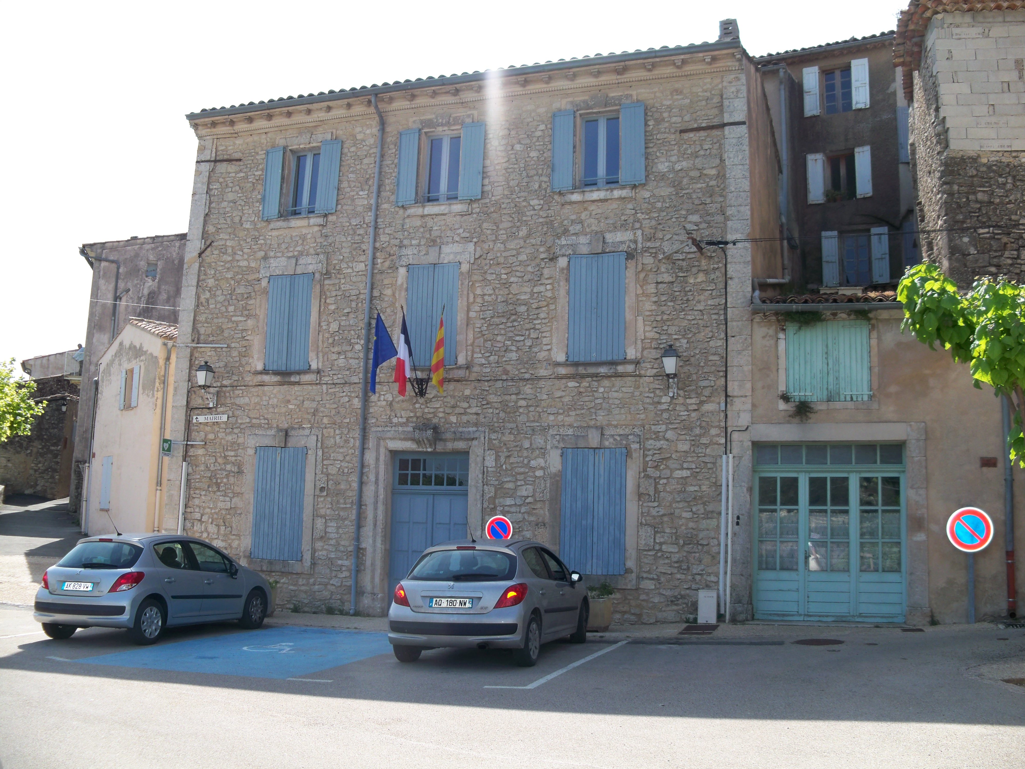 Town hall of Saint Martin de Castillon, Vaucluse, France